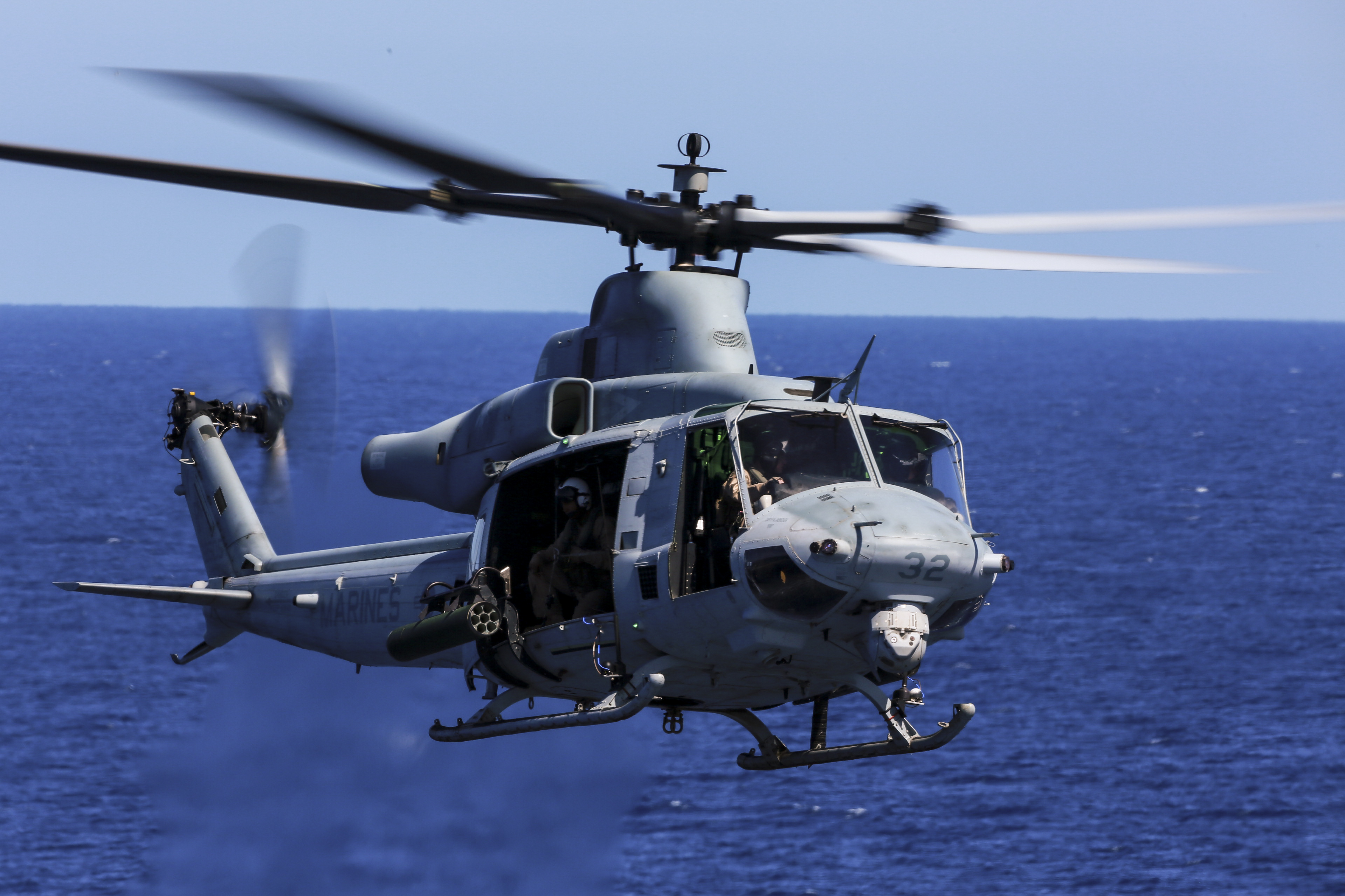 A UH-1Y Venom transports members of the 15th Marine Expeditionary Unit's Maritime Raid Force from the USS Anchorage (LPD 23), board and seize a suspect vessel during Certification Exercise (CERTEX) off the coast of San Diego April 9, 2015. The MRF Marines are honing their visit, board search and seizure procedures as they continue to integrate with their Navy counterparts (U.S. Marine Corps photo by Sgt. Jamean Berry/Released)